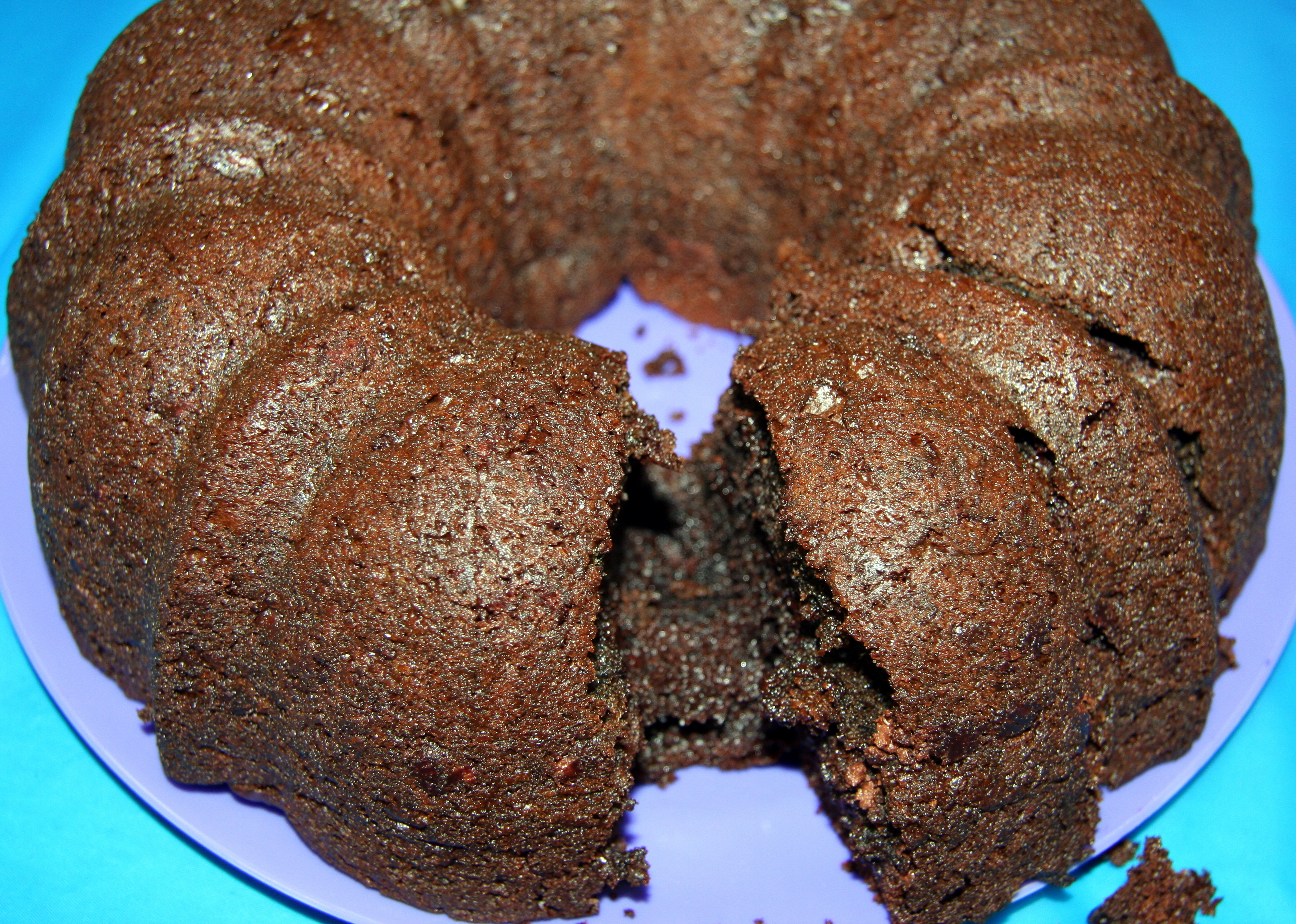 Chocolate Bundt cake